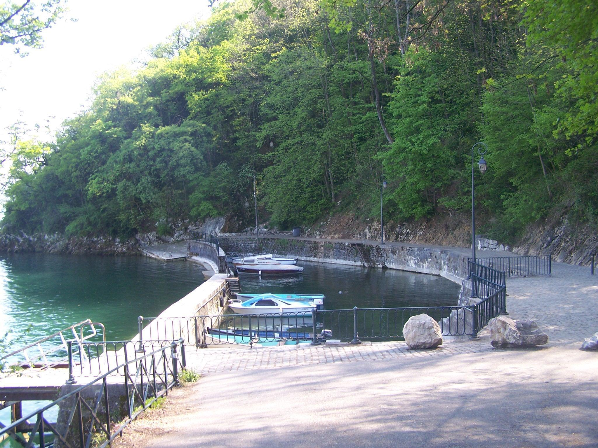 The small harbour of Bourdeau at the lake of Bourget in Savoie, France.